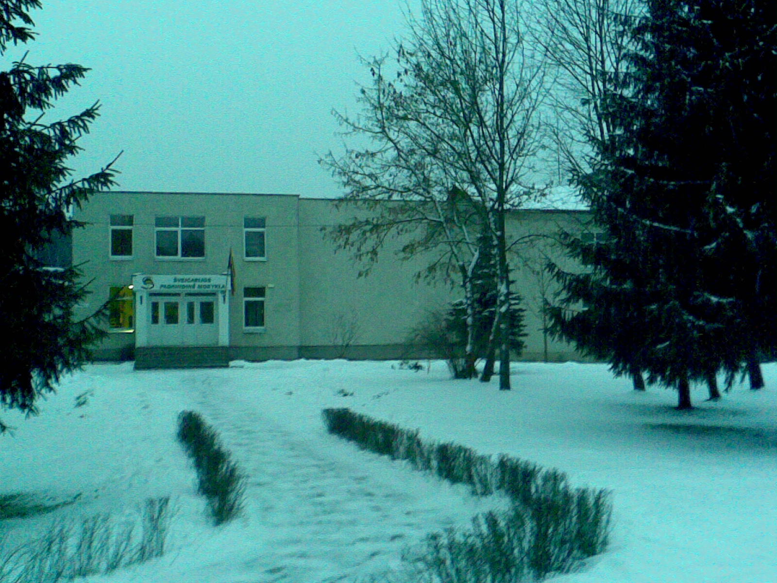 Šveicarija basic school